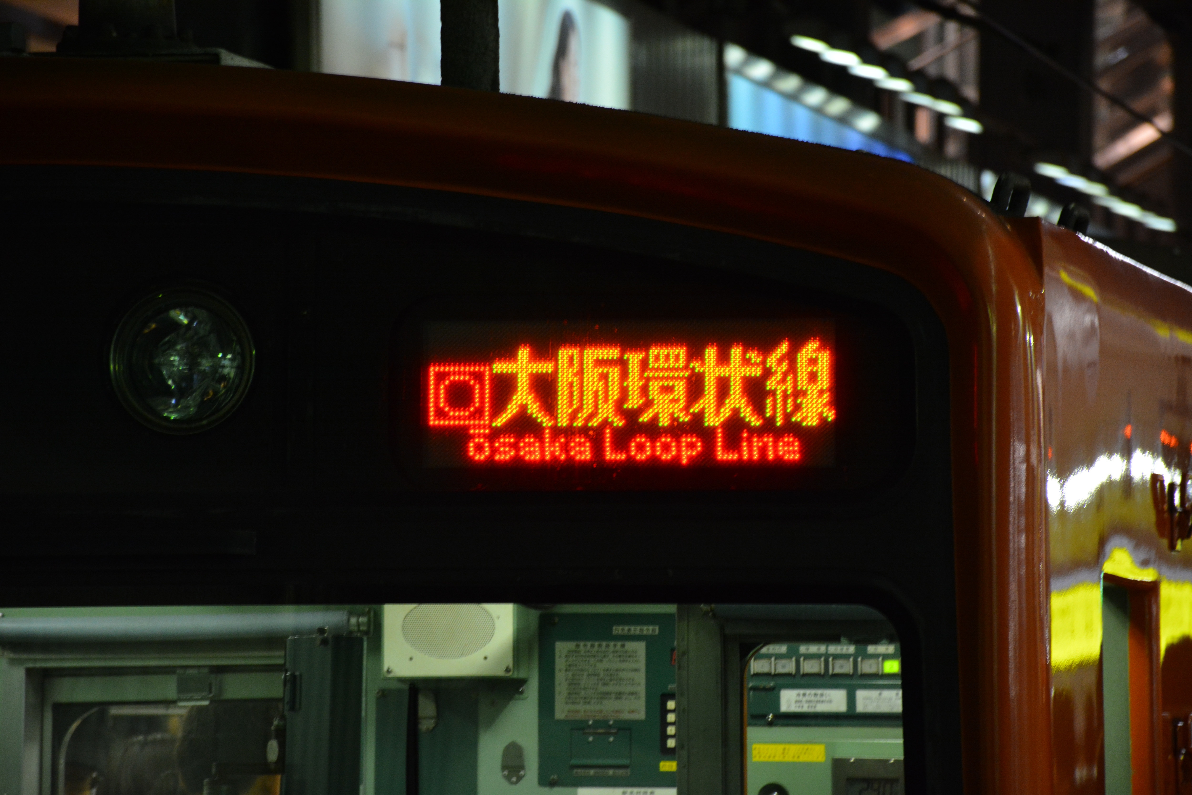 LED line/destination display on JNR 201 series Osaka Loop LIne train